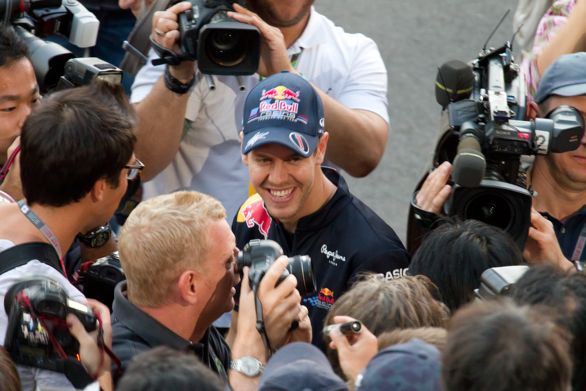 Formula One 2011 Rd.15 Japanese GP: Sebastian Vettel (Red Bull) at autograph session on Thursday.